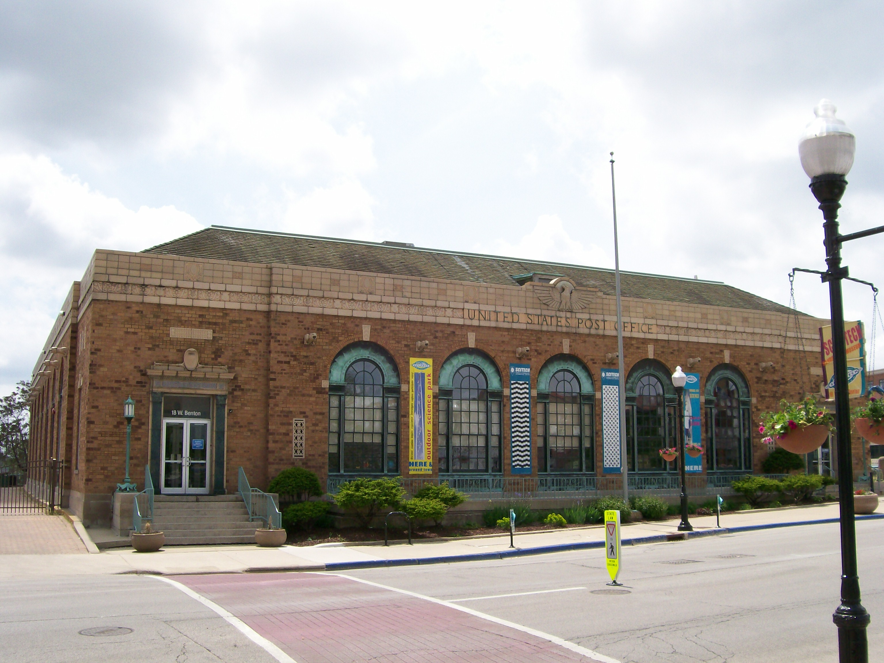 Old Aurora, IL Post Office. Now home of SciTech Museum, Aurora, IL